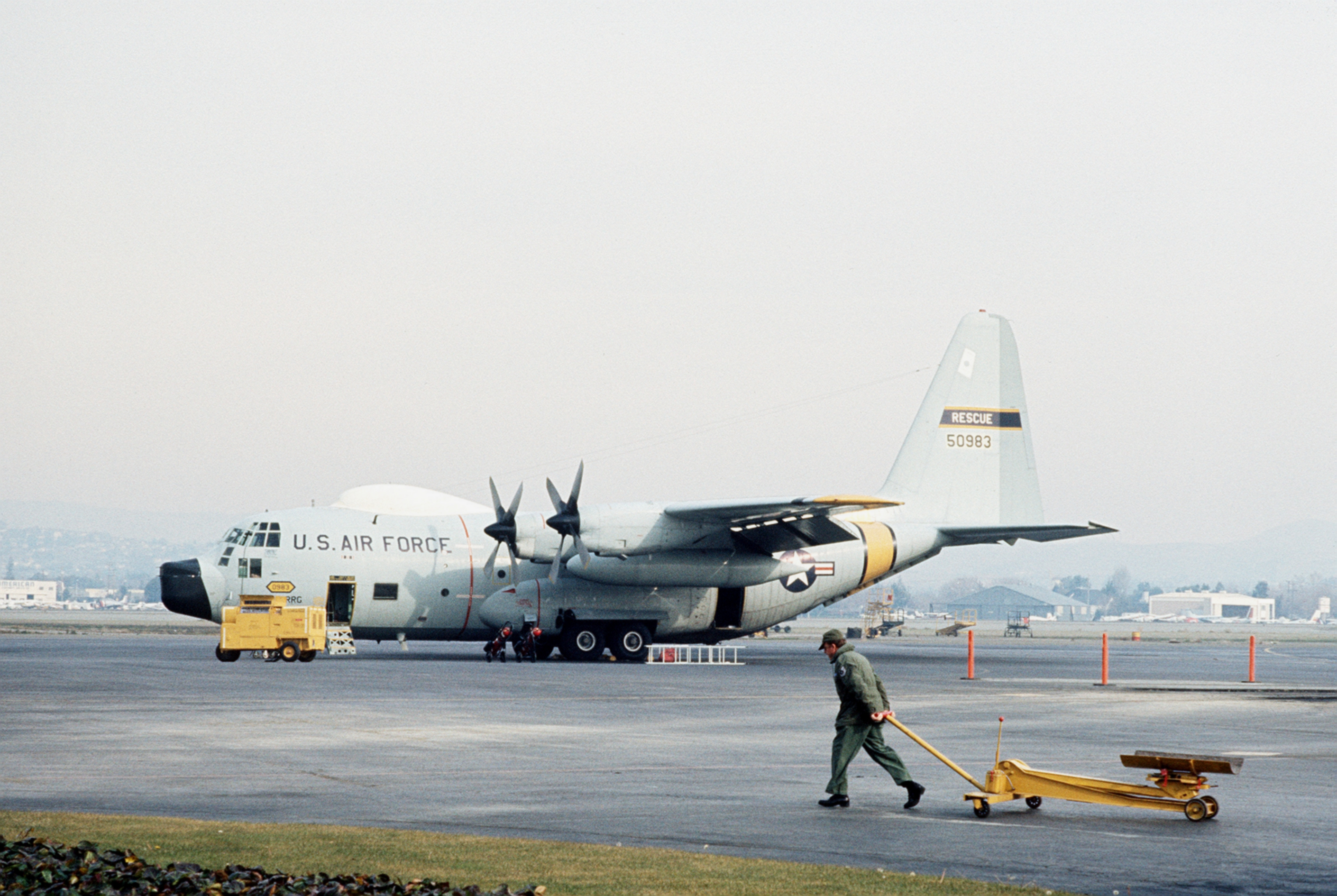 A U.S. Air Force Lockheed HC-130H-LM Hercules (s/n 65-0983) from the 129th Aerospace Rescue and Recovery Group, California Air National Guard, on the flightline at Hayward Airport, California (USA), prior to flying a practice rescue mission off the coast of California on 13 April 1977.